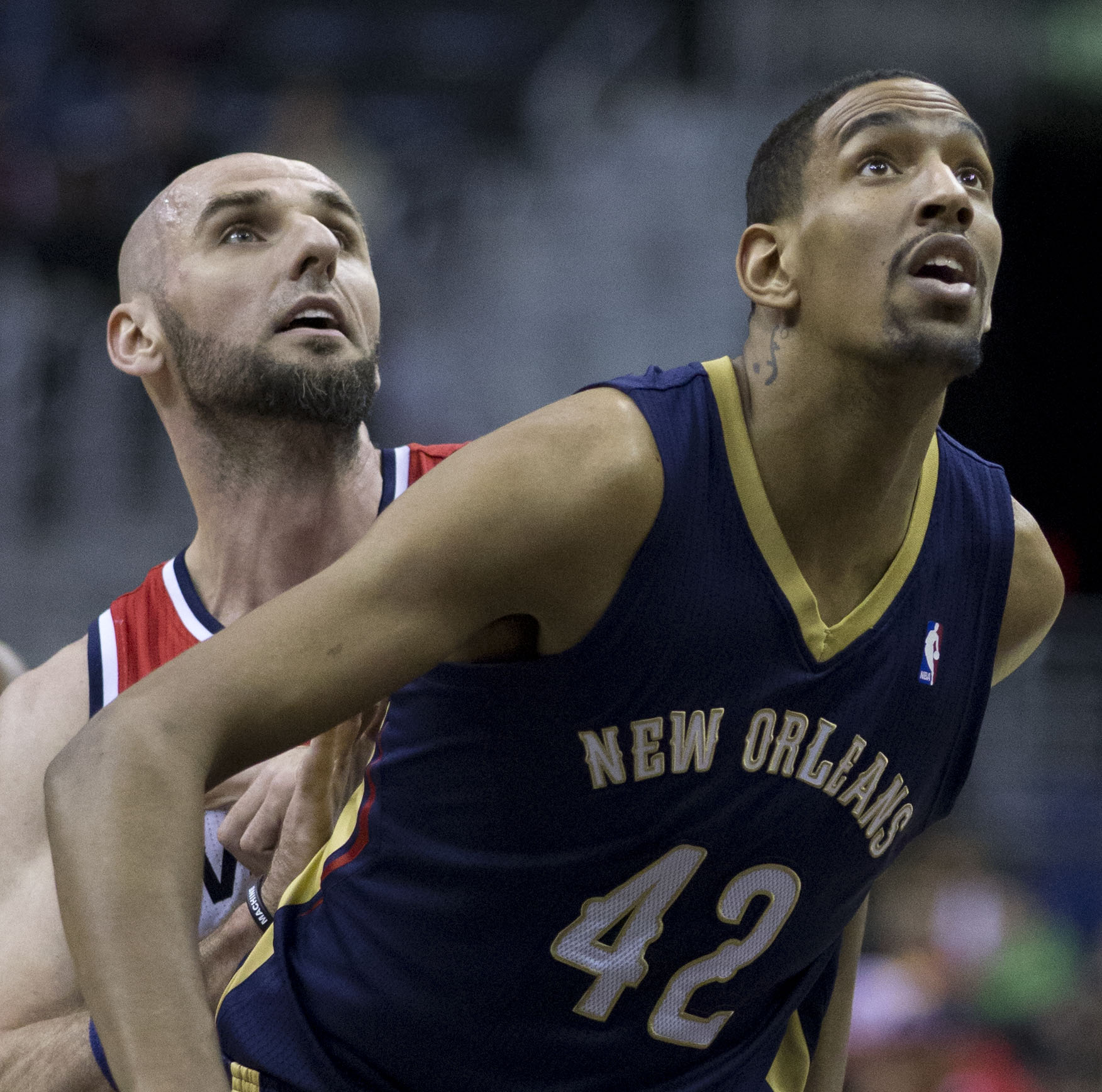 Pelicans at Wizards 2/22/14